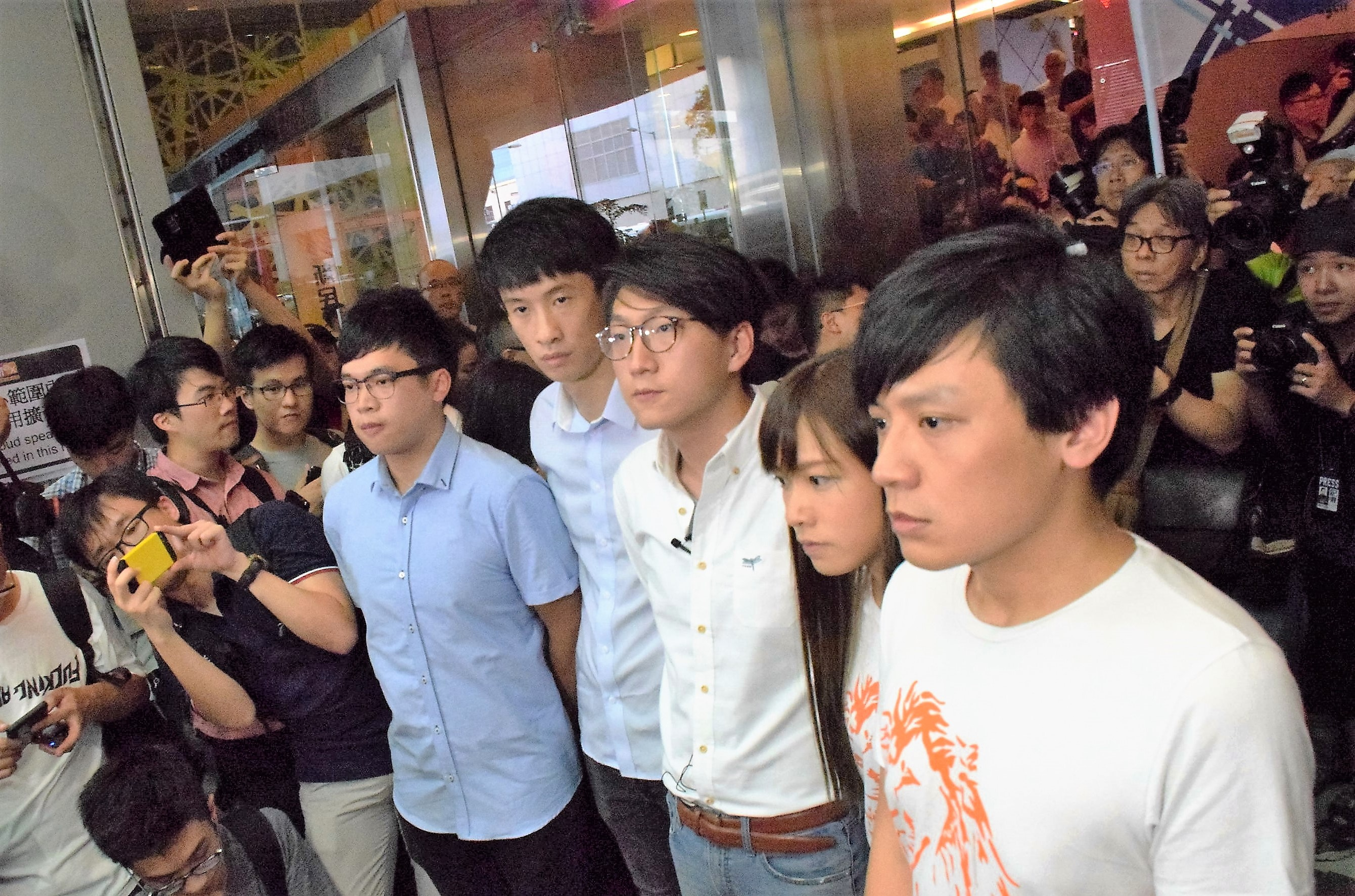 Youngspiration contesting in the 2016 LegCo election.